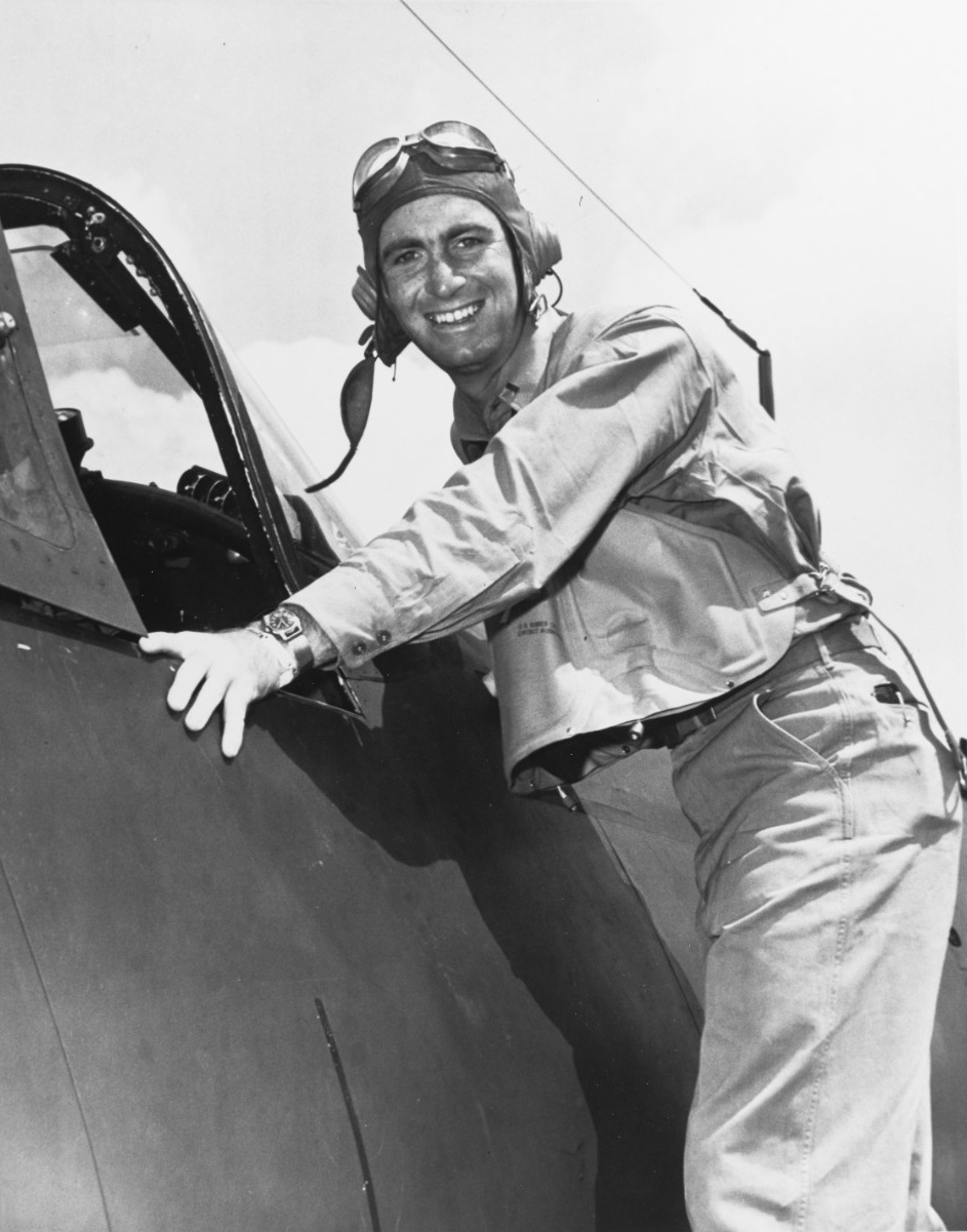 U.S. Navy fighter ace Ira "Ike" Kepford pictured in a press photo shoot after the second combat deployment of Fighting Squadron 17 (VF-17) "Jolly Rogers". Kepford, an Vought F4U Corsair pilot, was at the time the U.S. Navy's leading ace with 16 credited victories.